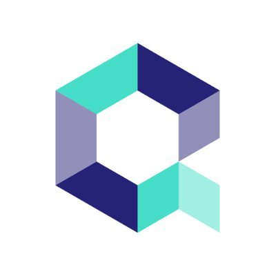 Quant Network Overledger Logo